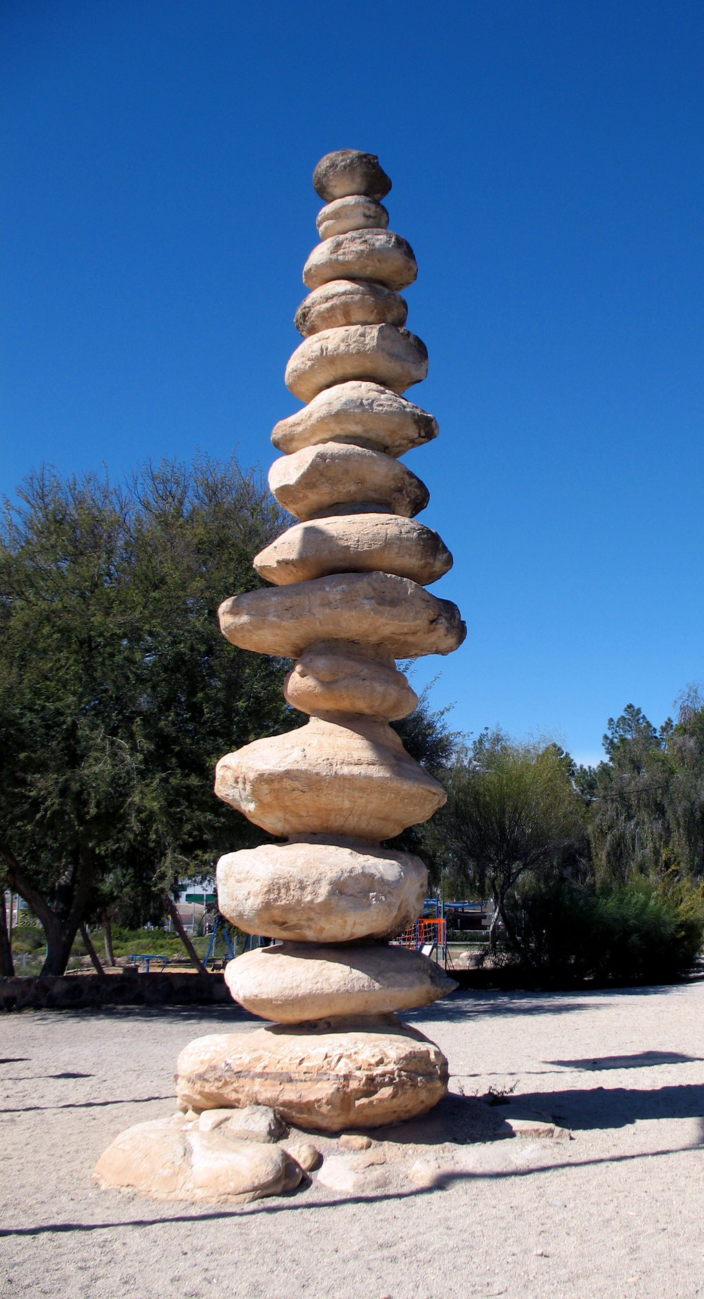 Gan HaHamisha, the stone structure planned by architect Yona Pitelson next to the monument to the five fallen soldiers in the Six Day War from Arad, Israel.